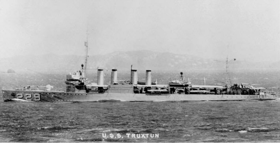 The USS Truxtun (DD-229) Caption Truxtun seen during the 1930's. Photo from the collection of Donald McPherson, courtesy U.S. Naval Historical Center (Charles Haberlein Jr., NHC and Chris Cavas, RoundTower Productions)